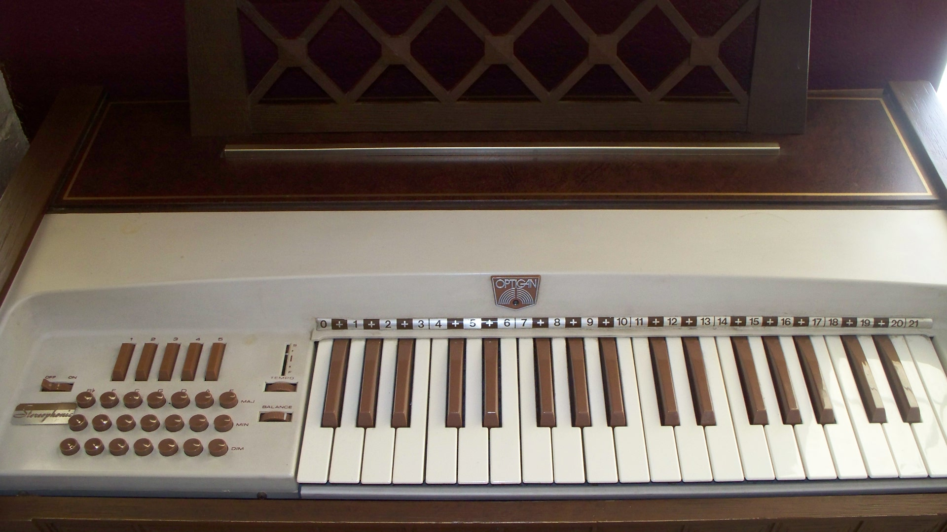 Main and chord keyboards of a model 35002 Optigan Music Maker optical organ, ca. 1971. Owned and photographed by user PMDrive1061.